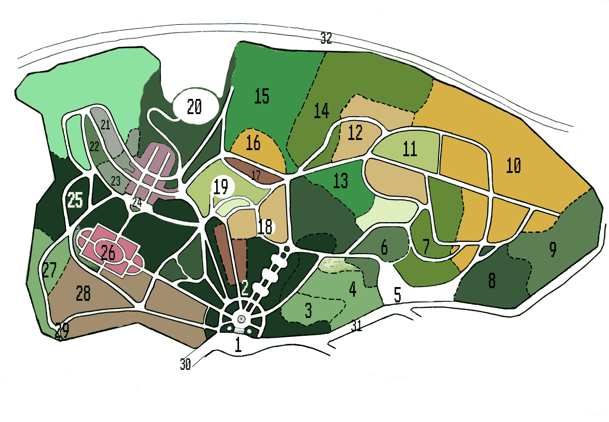 Map of National M. M. Grishko botanical garden (Kiev).